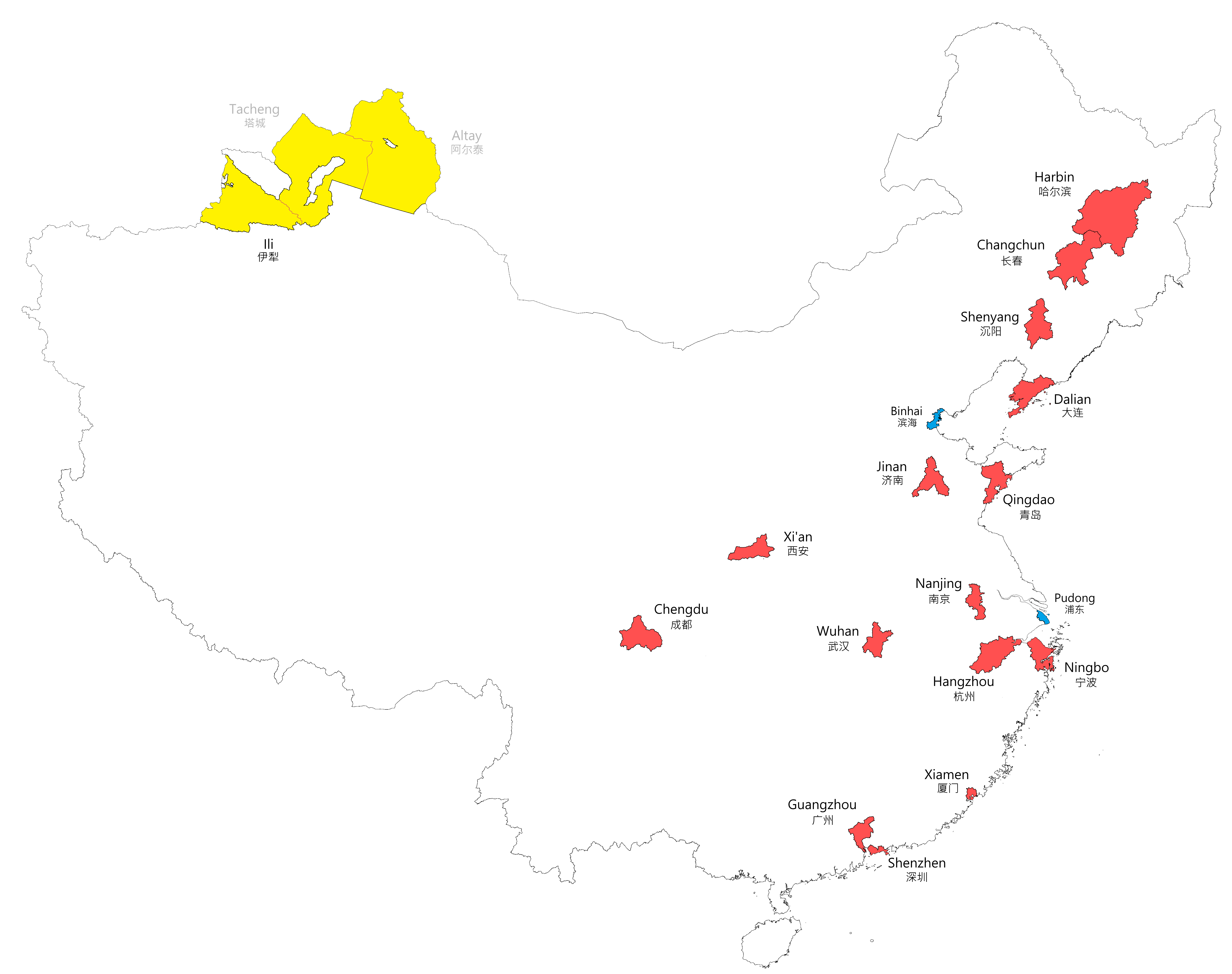 Map showing PRC's Sub-provincial level entries